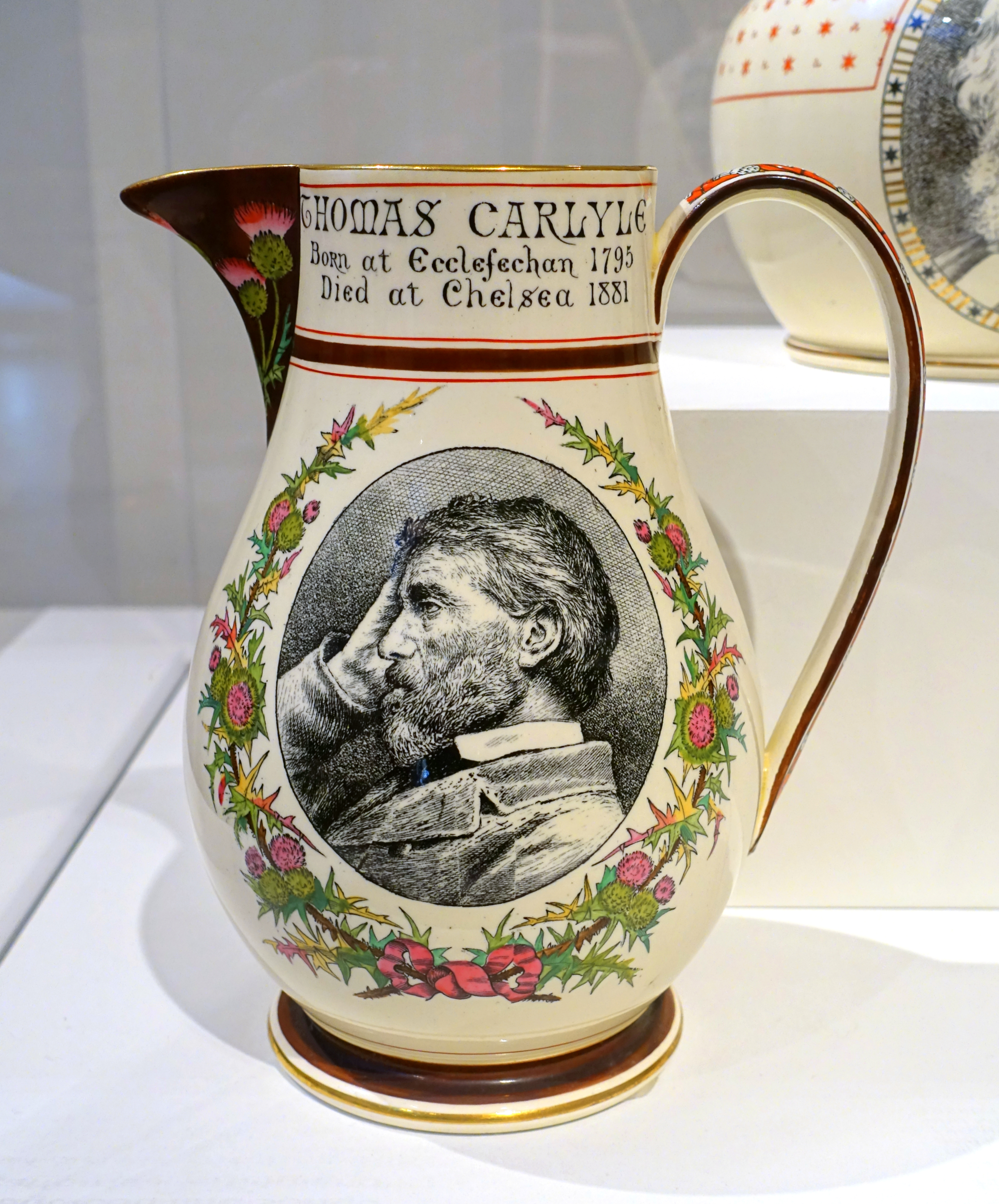 Exhibit in the Peabody Essex Museum - Salem, Massachusetts, USA.